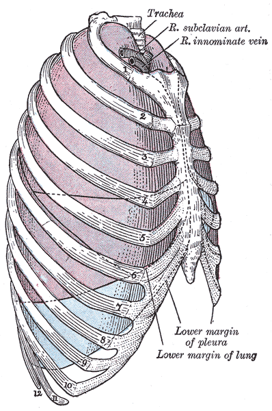 Lateral view of thorax, showing the relations of the pleuræ and lungs to the chest wall. Pleura in blue; lungs in purple.